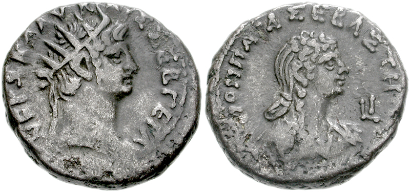 EGYPT, Alexandria. Nero, with Poppaea. AD 54-68. Tetradrachm (24mm, 12.49 g, 12h). Dated RY 10 (AD 63/4). Radiate head of Nero right Draped bust of Poppaea Sabina right; date in right field. Köln 157-158; Dattari 196; Milne 217-221; Emmett 128. VF, toned, an area of minor porosity.